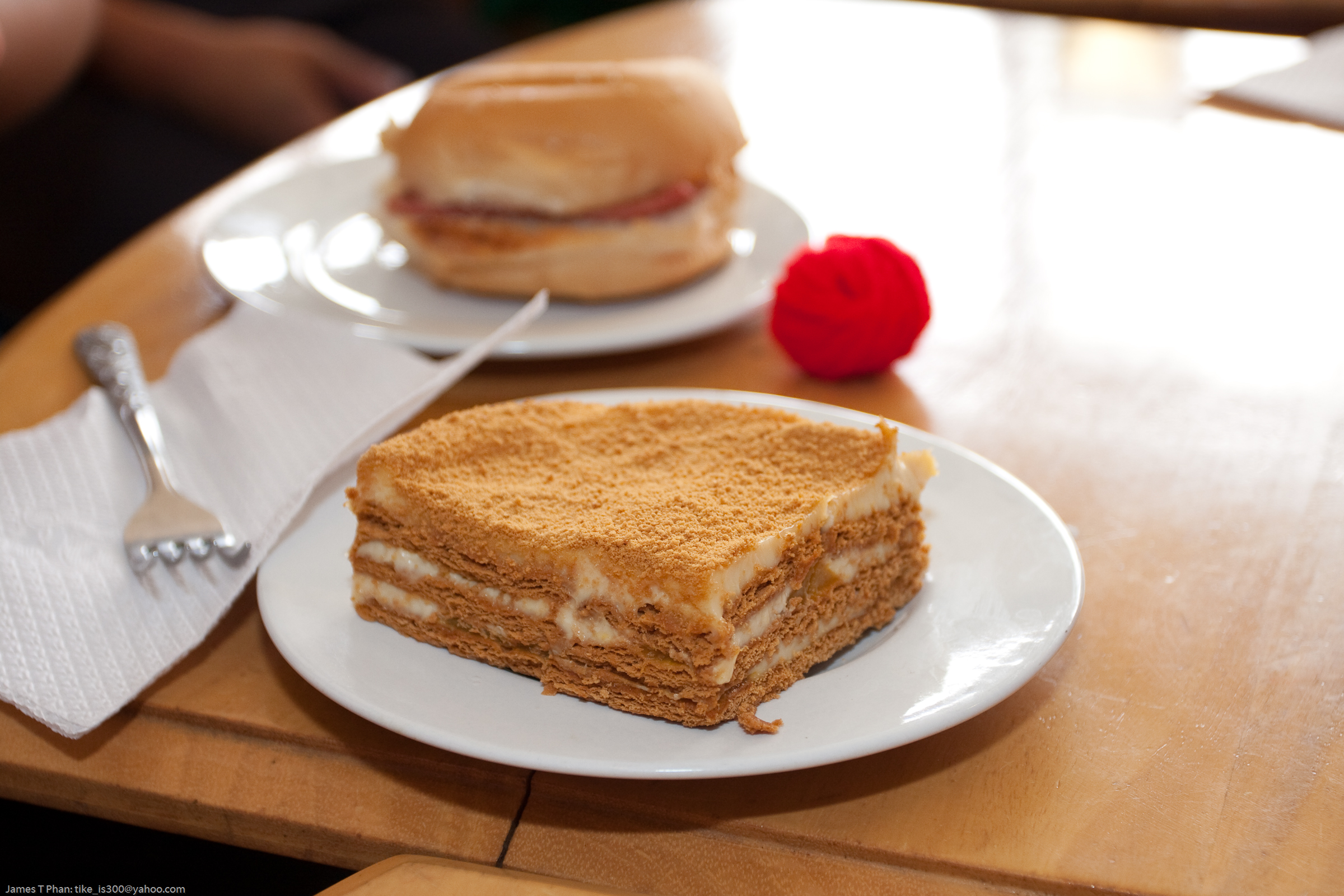 Mango float from Cebu City, Philippines